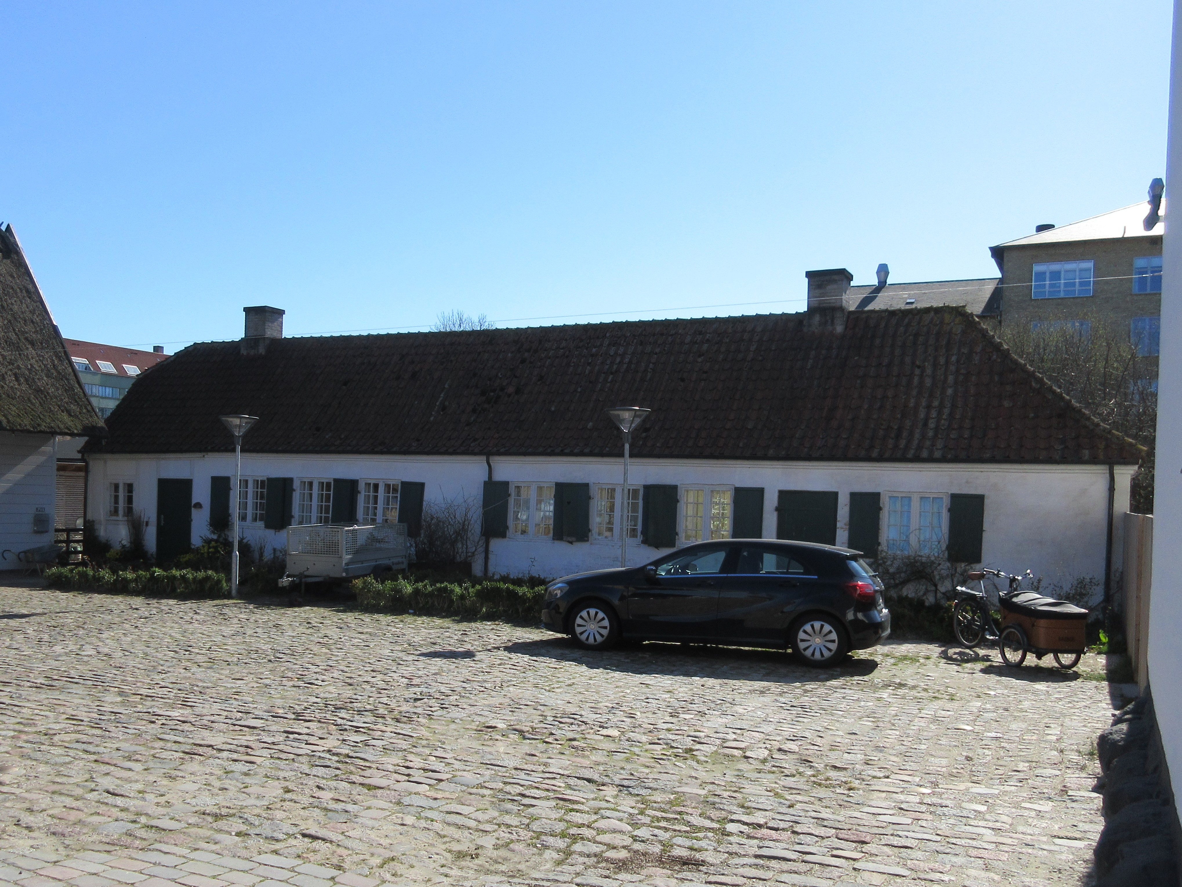 Store Godtbåb in Grederiksberg, Denmark